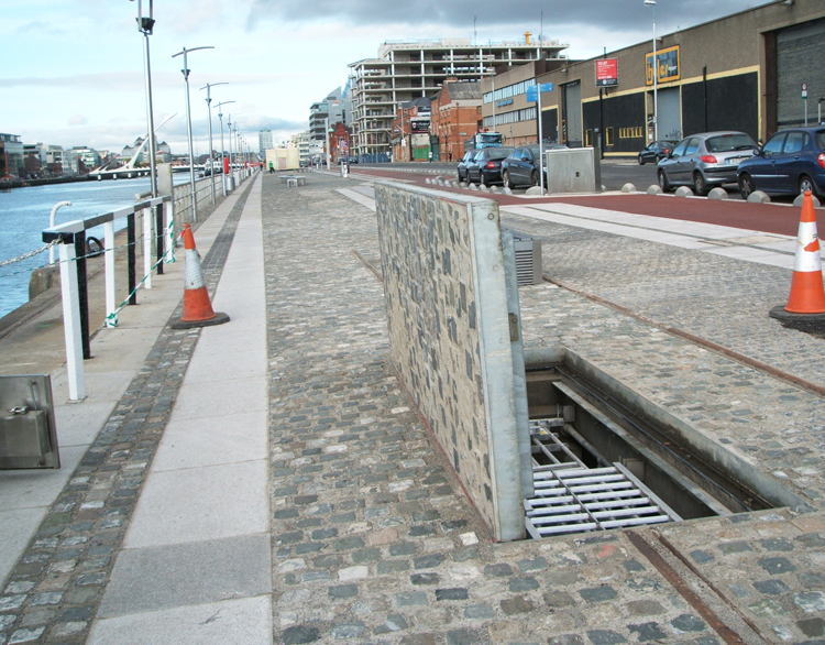 Floor Access Cover - Liffey Tunnel